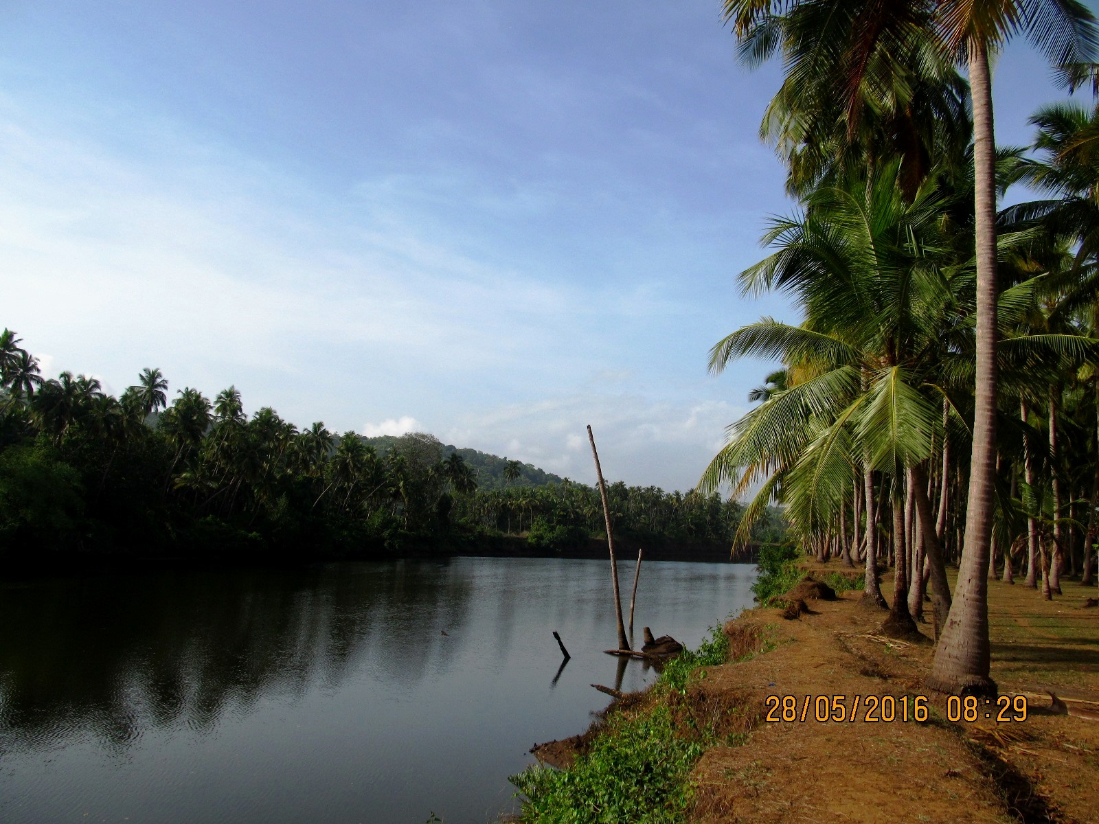 It is a landscape click in a remote village of Konkan in Maharashtra.